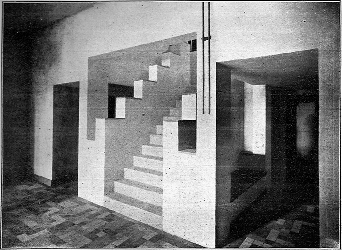 Anonymous. Holiday House De Vonk, Noordwijkerhout, interior. c 1918 (?). Photo. From Theo van Doesburg. Classique-Baroque-Moderne. Anvers: De Sikkel, [1921].